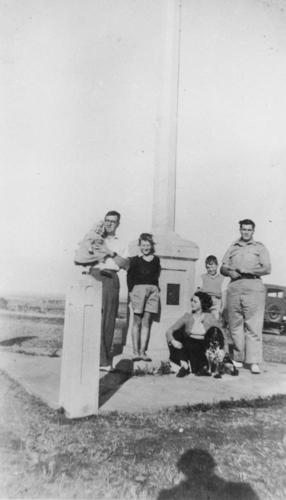 Hinkler Memorial on the Hummock, Bundaberg, 1947 Bundaberg was the birthplace in 1892 of the aviation pioneer Bert Hinkler, who made the first solo flight from Britain to Australia in 1928. He made his first attempt to fly in a glider on Mon Repos Beach in 1912. There is a monument to him on the Hummock, and the Hinkler family house in Mount Perry road is now a memorial museum. Bert Hinkler was killed in an air crash in the Italian Alps in 1933.